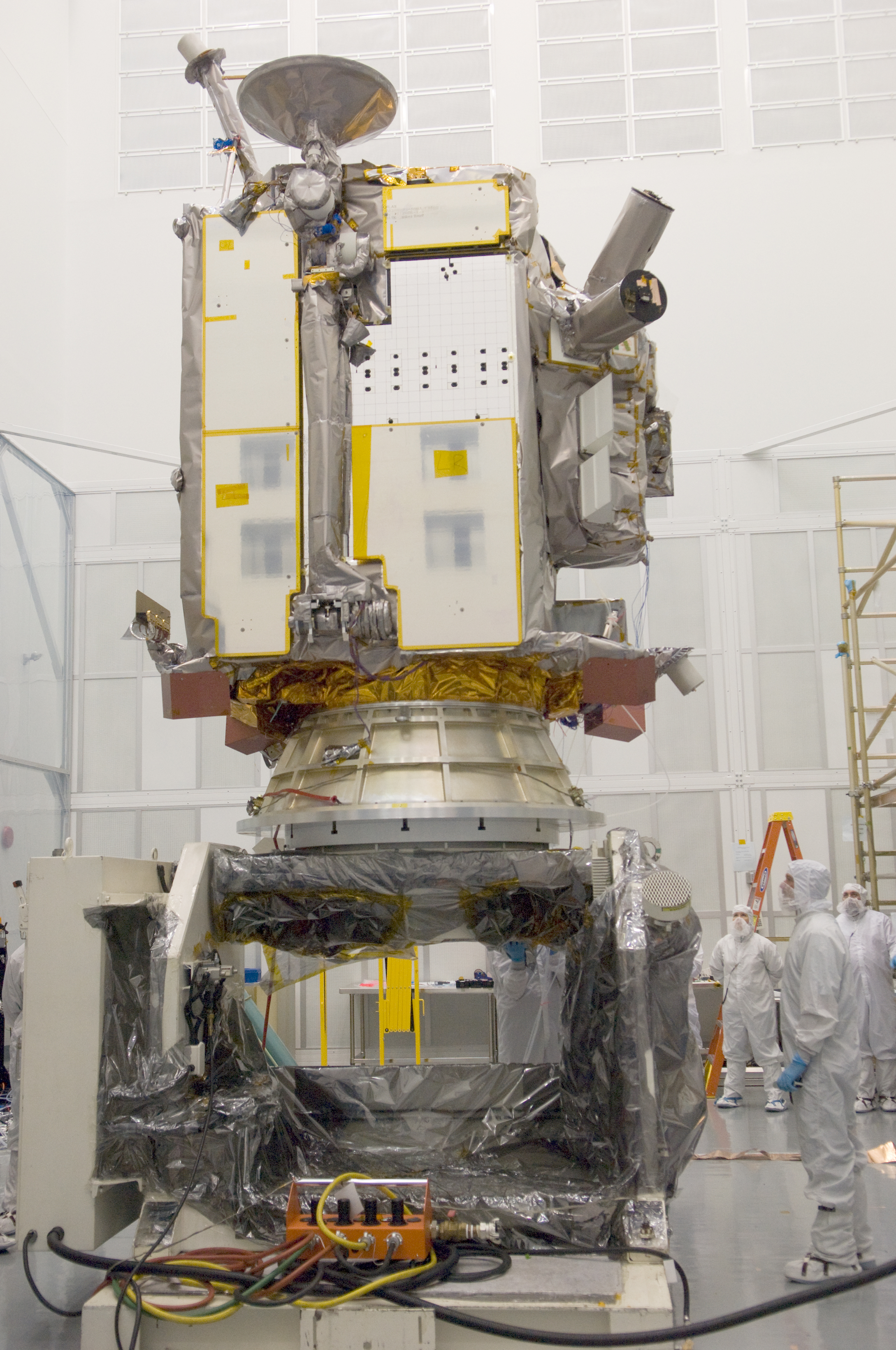 Lunar Reconnaissance Orbiter LRO during testing at NASA